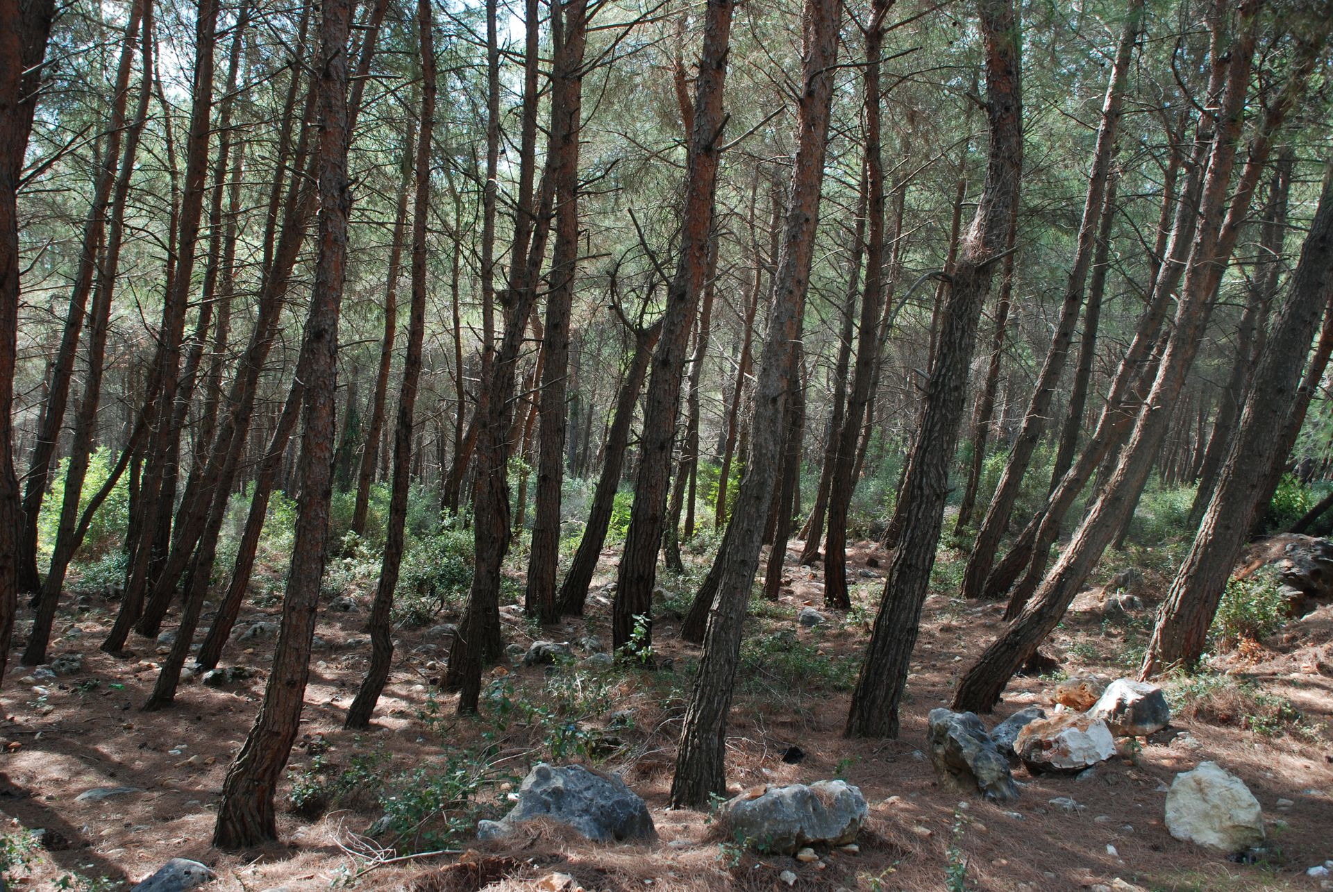 Pinus brutia, Jebel Aansariye, Syria